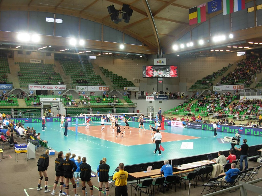 2009 Women's European Volleyball Championship in Poland